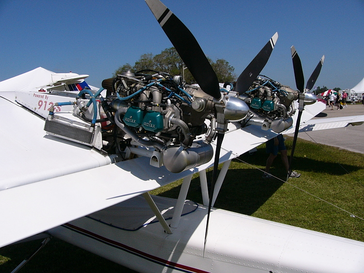 I took this photo of a Leza Lockwood Air Cam's twin Rotax 912S engine installation in pusher configuration.